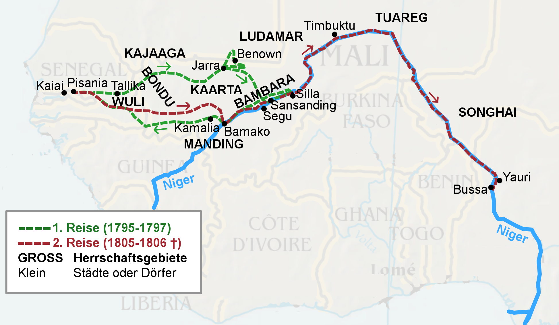 Routes of Mungo Park (explorer)